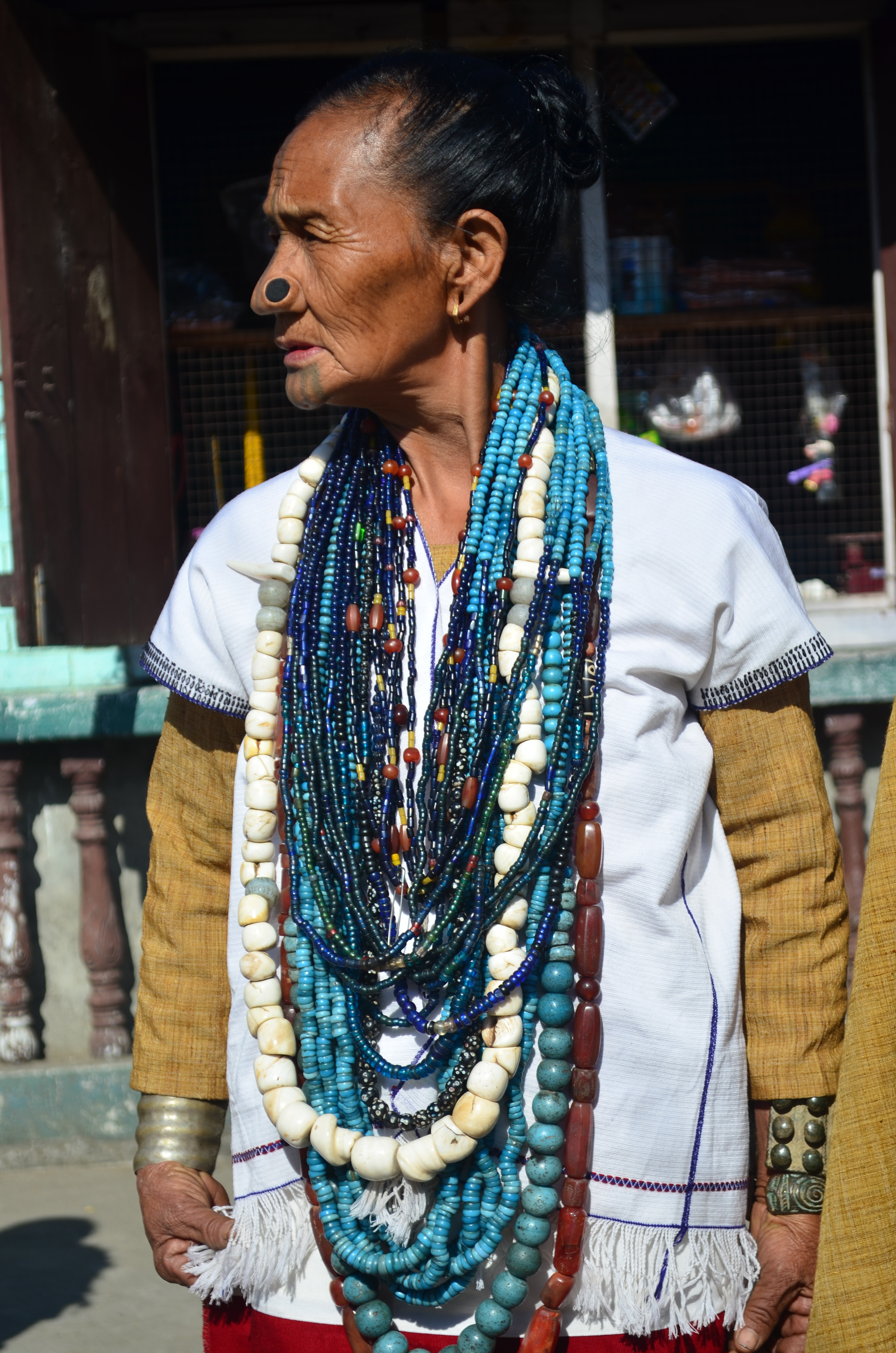 An Apatani Woman in a traditional attire during Muting Festival. Apatanis are natives of Arunachal Pradesh, Lower Subansiri District, particularly from Ziro. Ziro is already in UNESCO'S World Heritage Site tentative list for its sustainable agriculture techniques and preservation of natural landscapes. This photo has been taken in the country: India